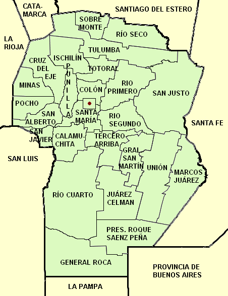 It shows the administrative division of Córdoba province in Argentina, and its capital.